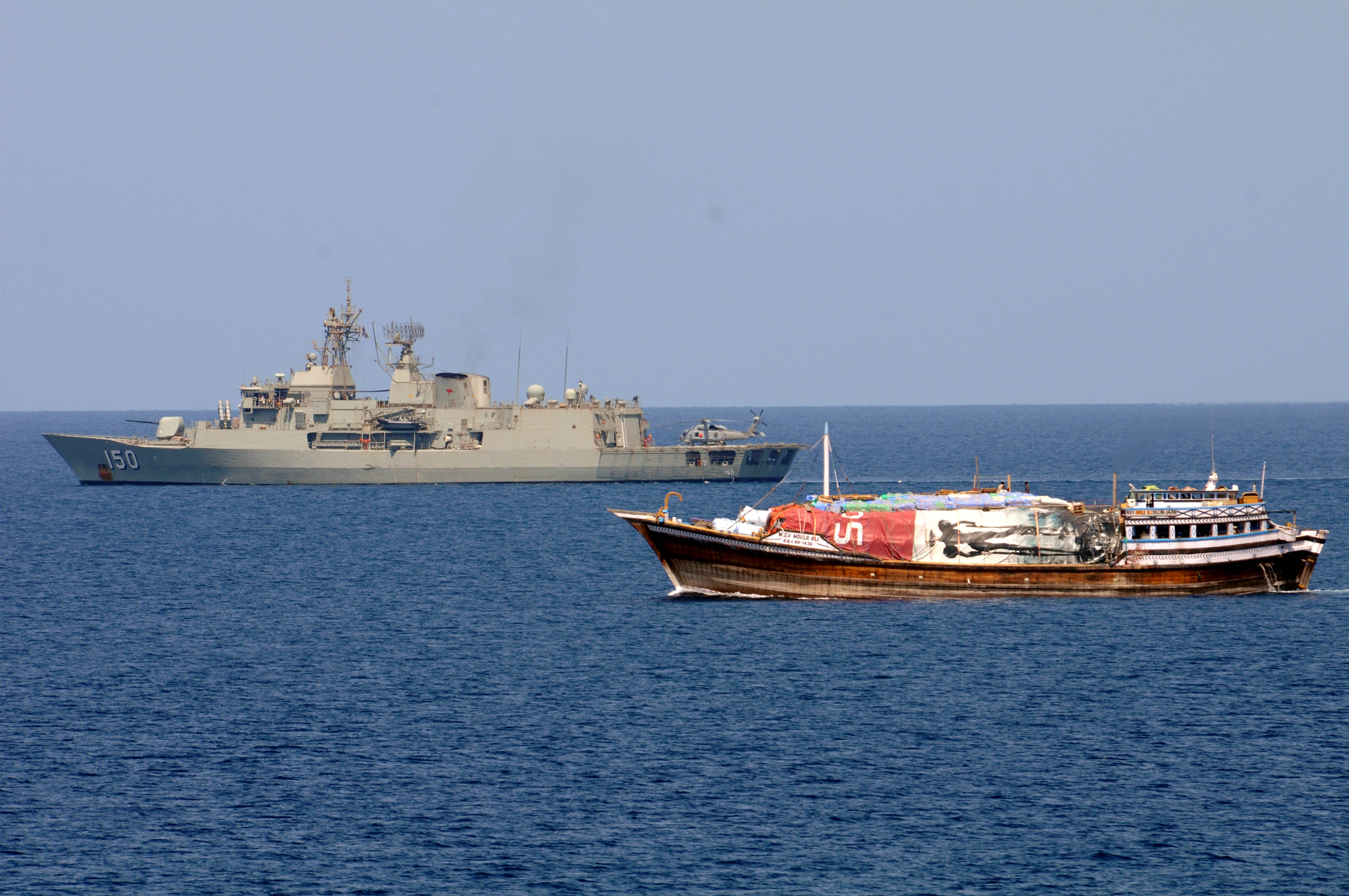 The Royal Australian Navy frigate HMAS Anzac (FFH 150) is underway alongside a dhow in the Gulf of Aden.